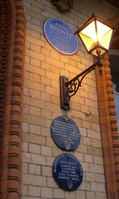 I took this picture in late December, 2006. Jsteph 02:30, 11 January 2007 (UTC)